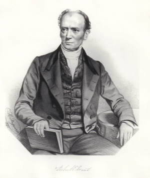 Robert E. Grant (1793-1874), Scottish physician, anatomist, zoologist and evolutionary biologist.